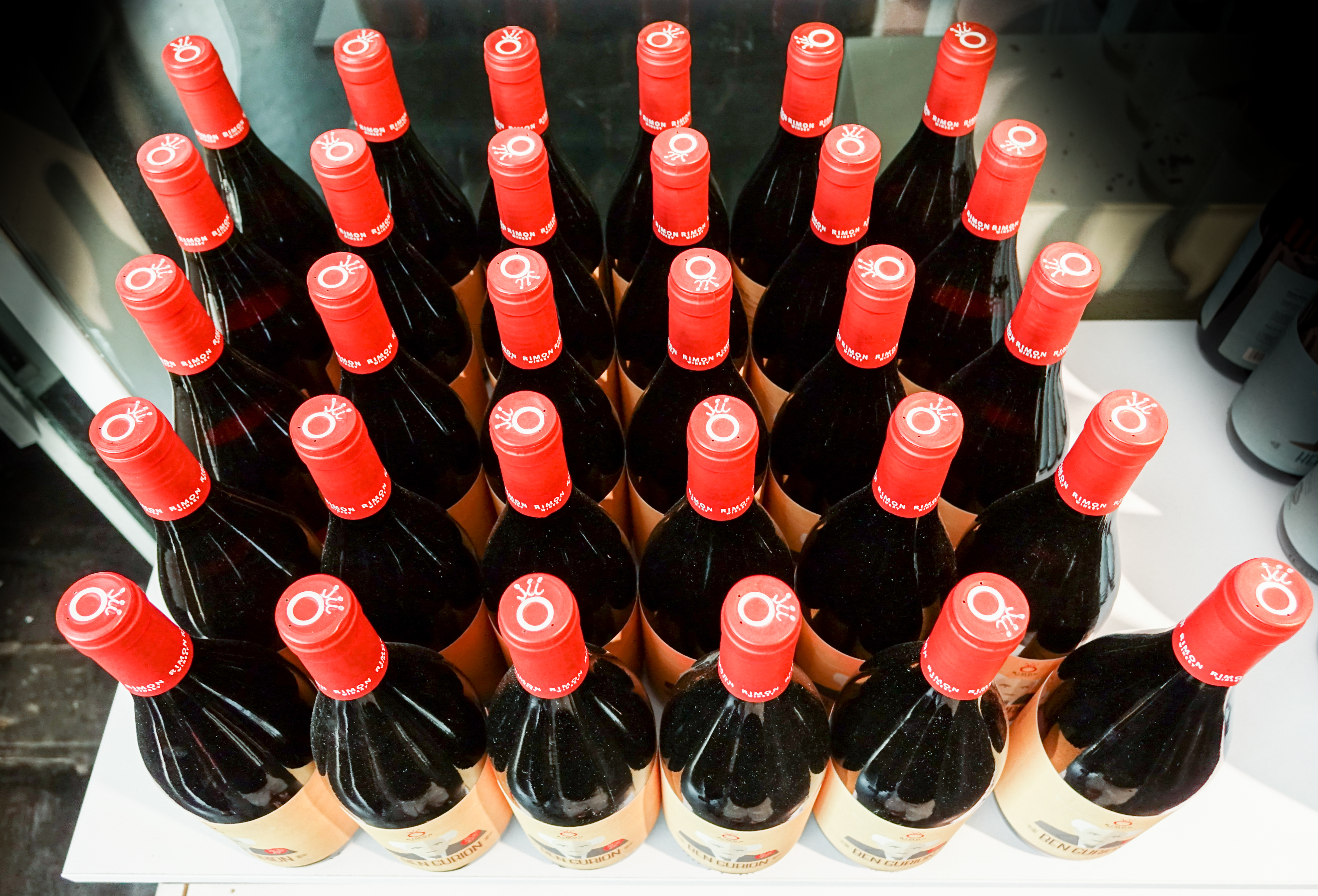 Entertainment